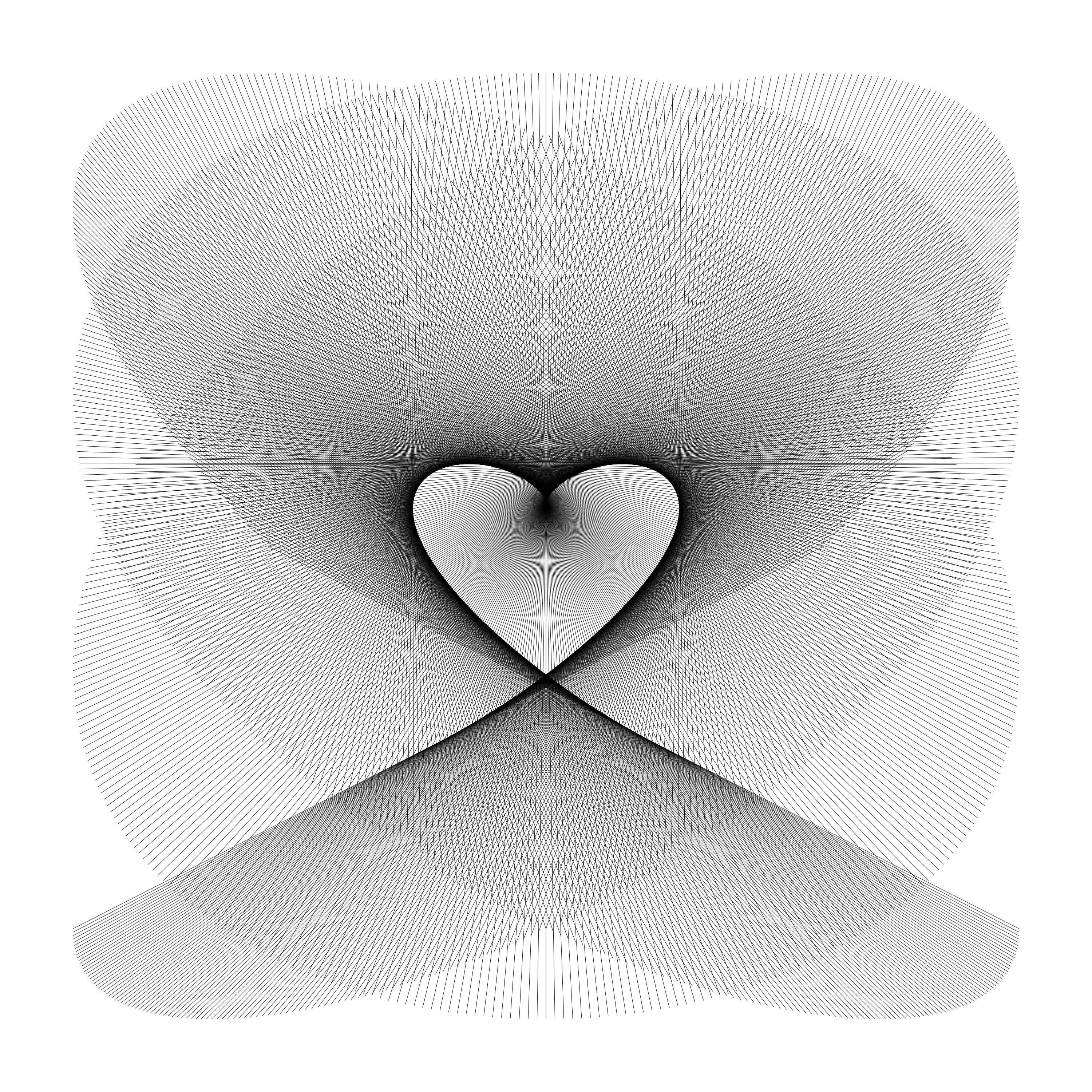 This image contains a heart-like figure. It shows 601 line segments. For each i = 1 , 2 , 3 , . . . , 601 {\displaystyle i=1,2,3,...,601} the endpoints of the i {\displaystyle i} -th line segment are: ( sin ⁡ ( 10 π ( i + 699 ) 2000 ) , cos ⁡ ( 8 π ( i + 699 ) 2000 ) ) {\displaystyle \left(\sin \left({\frac {10\pi (i+699)}{2000 \right),\;\cos \left({\frac {8\pi (i+699)}{2000 \right)\right)} and ( sin ⁡ ( 12 π ( i + 699 ) 2000 ) , cos ⁡ ( 10 π ( i + 699 ) 2000 ) ) {\displaystyle \left(\sin \left({\frac {12\pi (i+699)}{2000 \right),\;\cos \left({\frac {10\pi (i+699)}{2000 \right)\right)} .